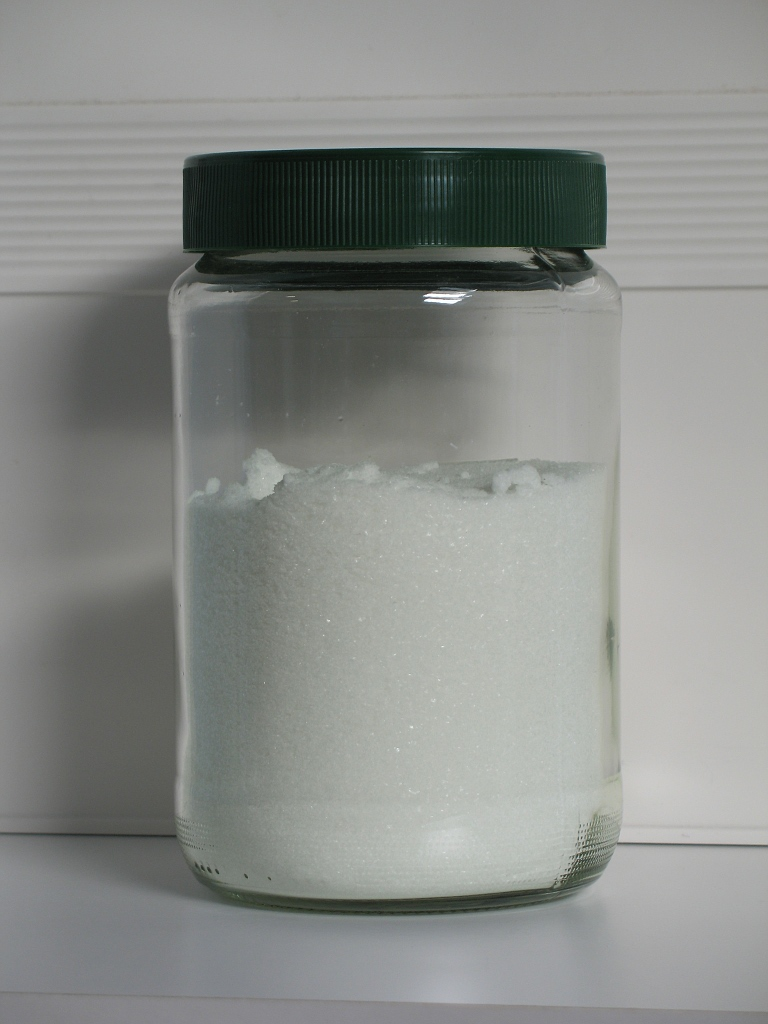 450 grams of sodium chlorite, NaClO2